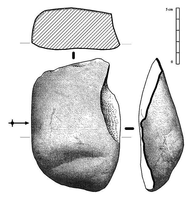 Cleaver-flake type 0.0 in the classification of J. Tixier (1956 & 1967)